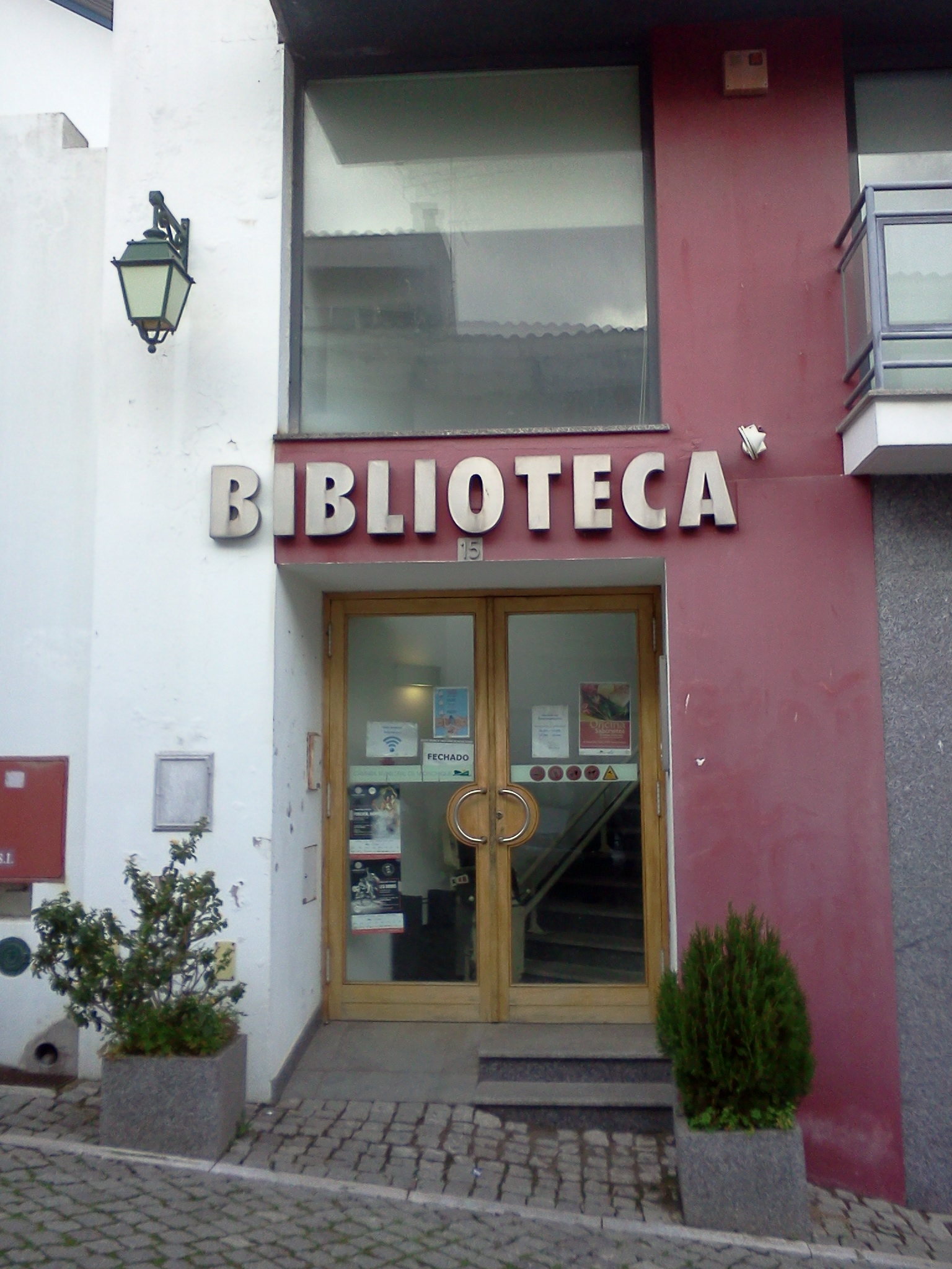 Entrance of the António da Silva Carriço Municipal Library, in the town of Monchique, in Portugal.